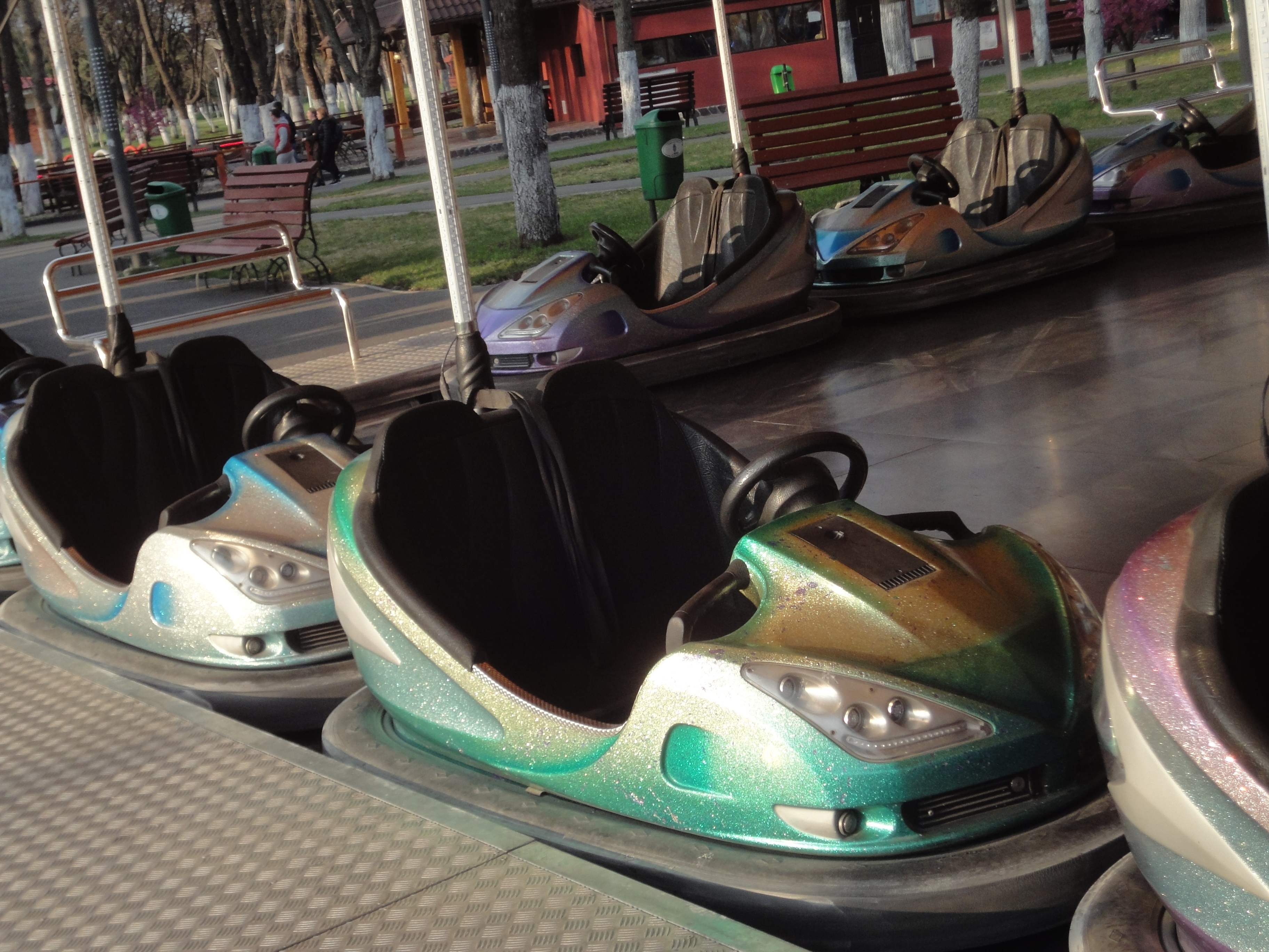 Bumper cars in the Children's Small Town